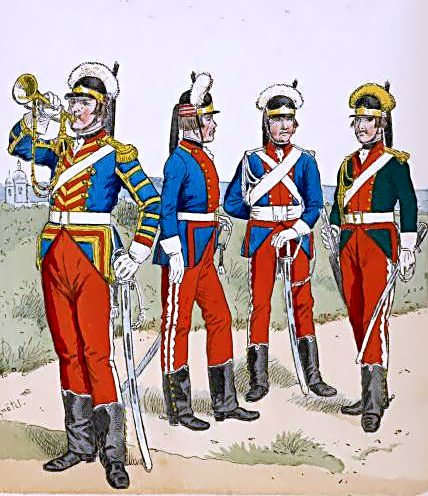 Russian troopers 1786-1796